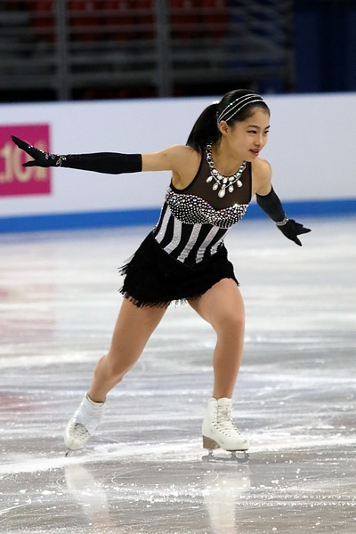 Photos – Junior World Championships 2018 – Ladies (Yuhana YOKOI JPN – 6th Place)